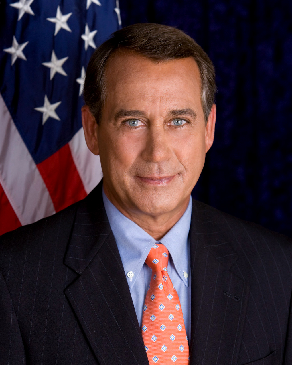 Official portrait of United States House Speaker John Boehner (R-Ohio).